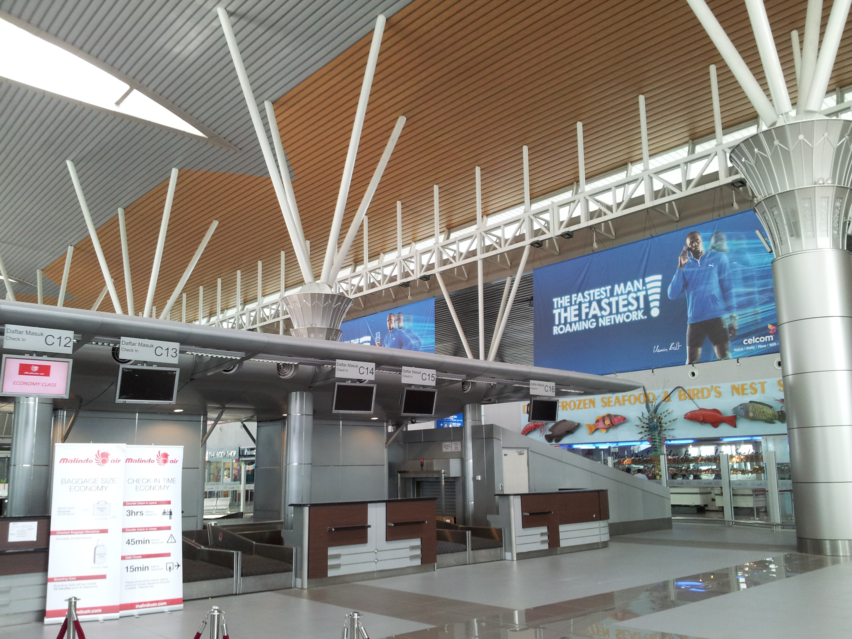 Kota Kinabalu International Airport_Terminal1_01